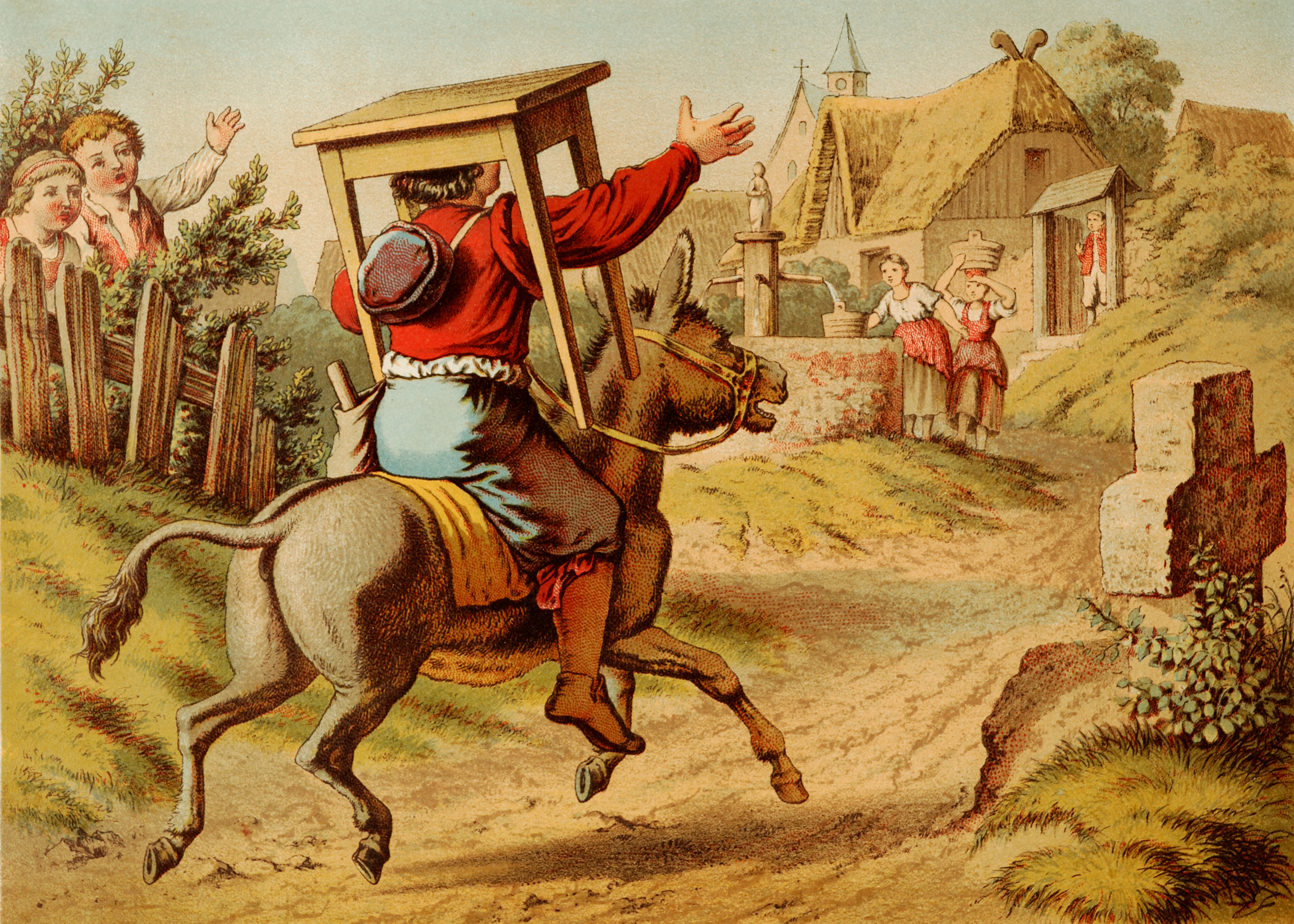 German fairy tale Tischlein deck dich! Eselein streck dich! Knüppel aus dem Sack!, illustration by Heinrich Leutemann or Carl Offterdinger